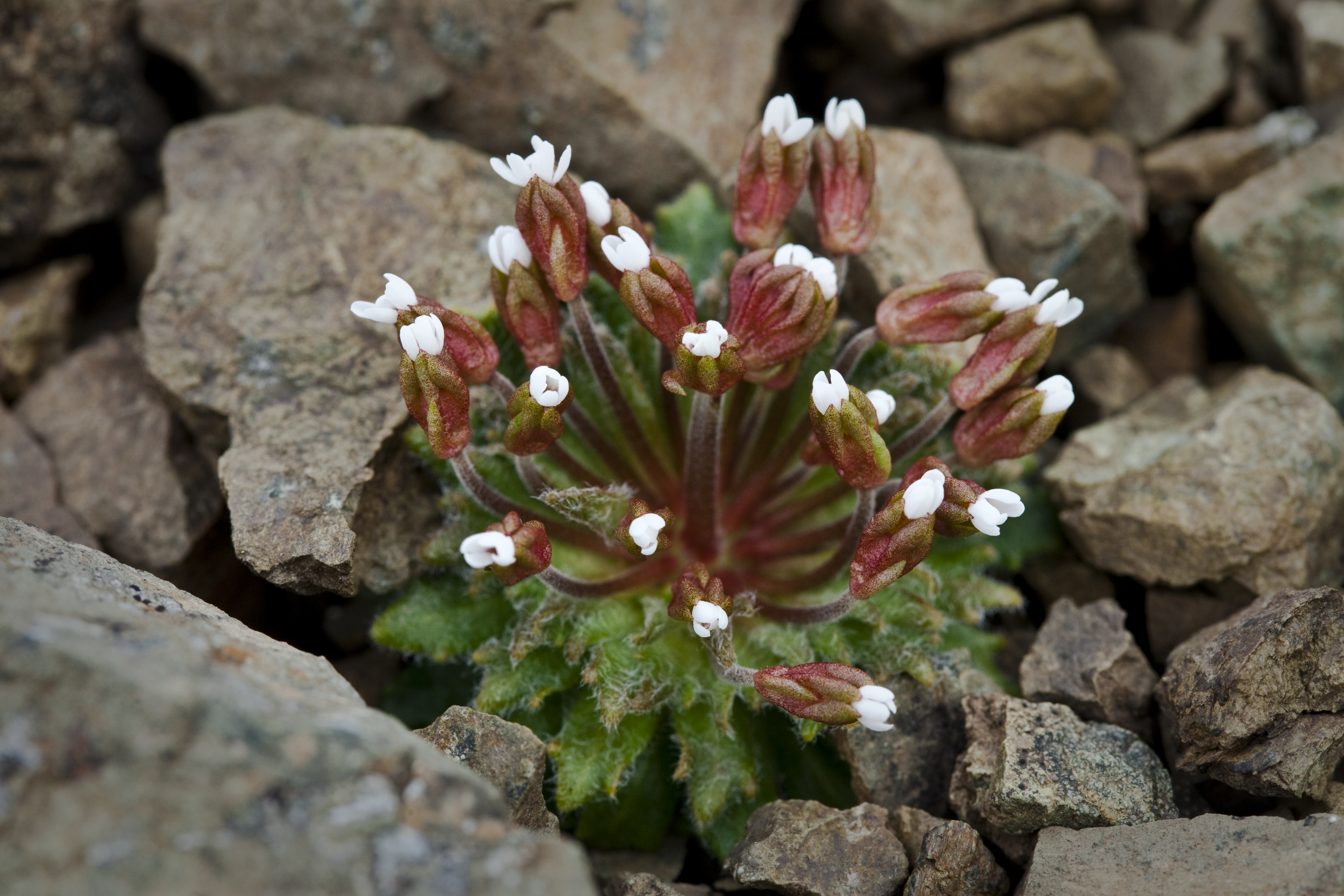 Androsace alaskana, Denali National Park and Preserve, AK, USA.